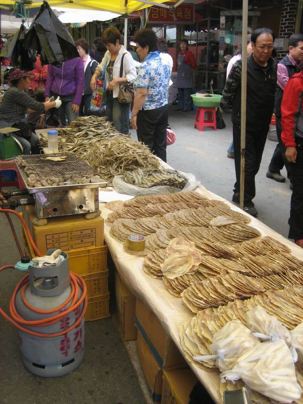 Displayed jwipo (쥐포, dried Stephanolepis cirrhifer) in a market , South Korea